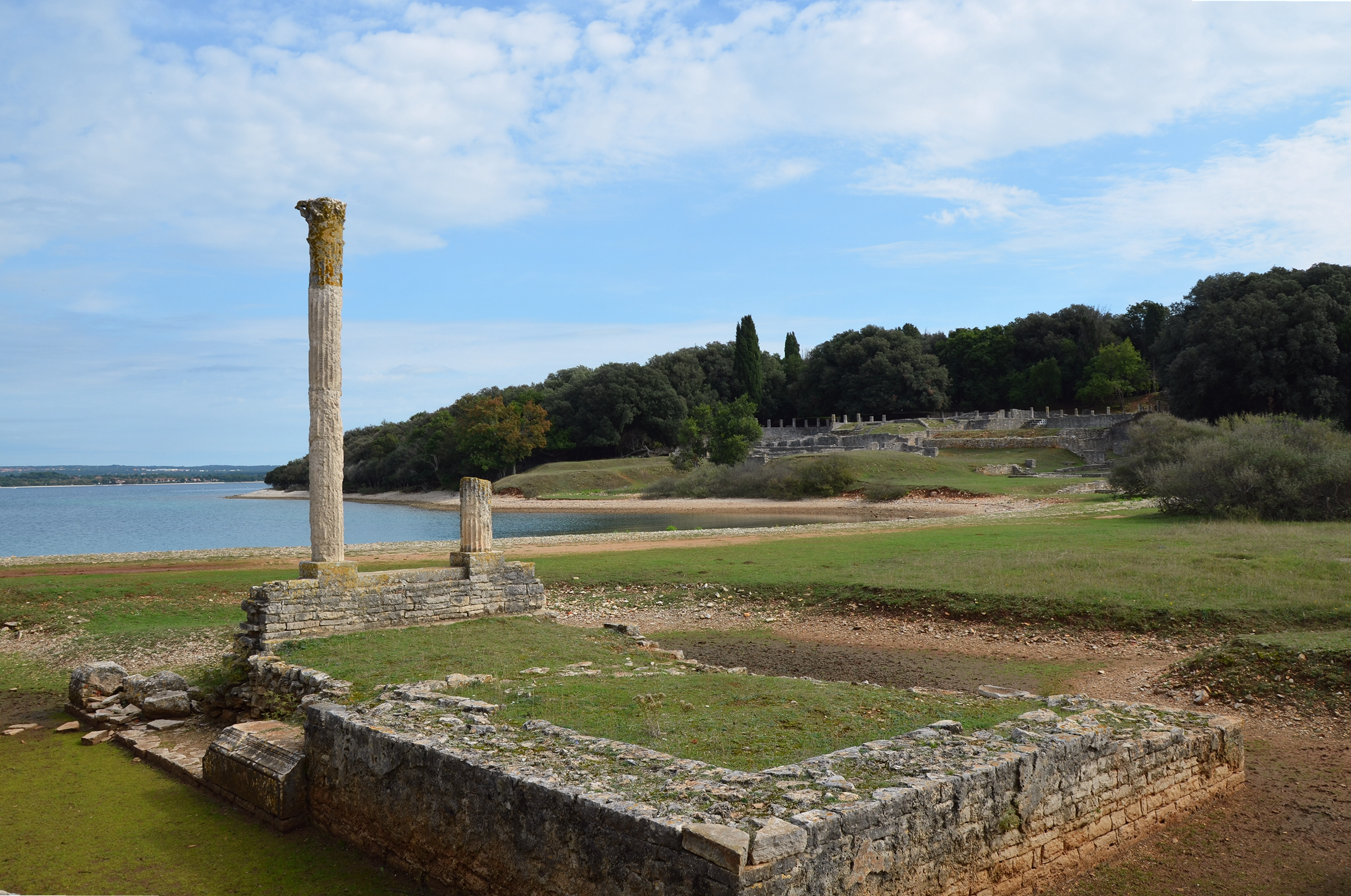 Roman Villa in the Bay of Verige, Brijuni Islands, Croatia